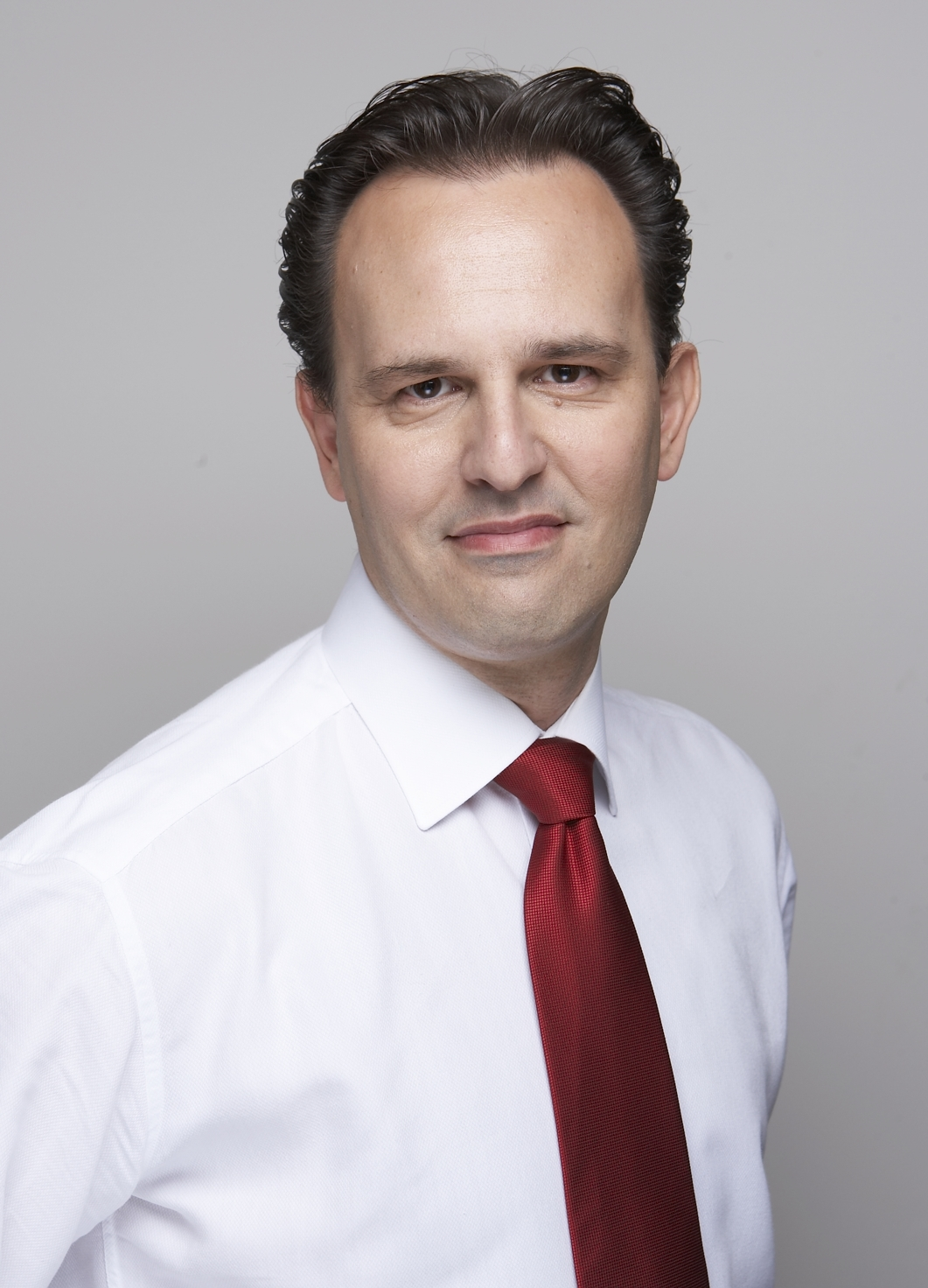 Dimitris Droutsas, Greek politician